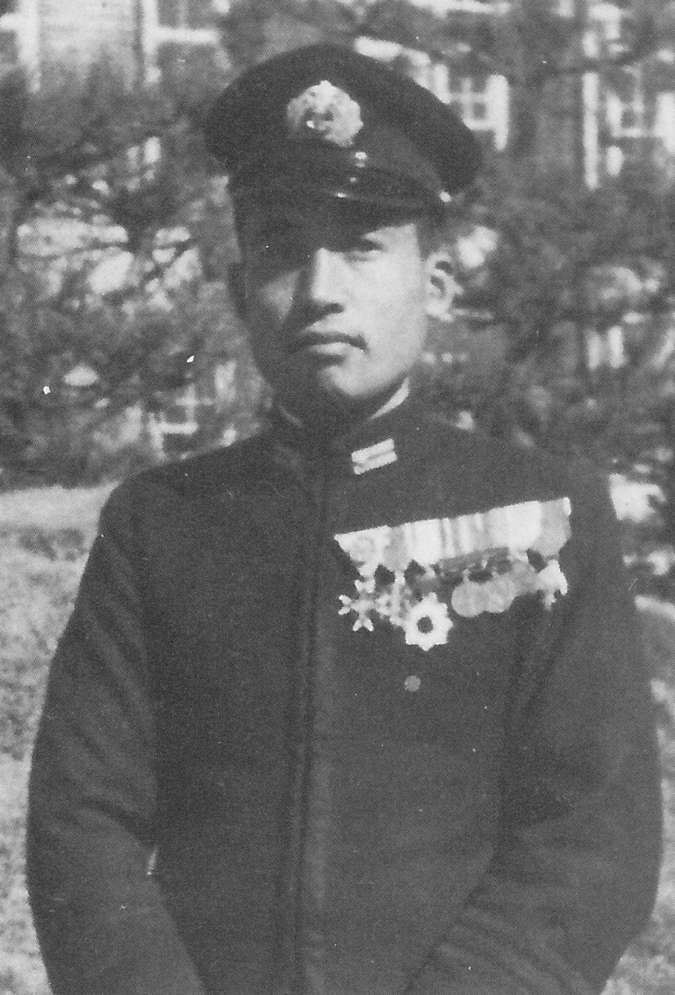 Imperial Japanese Navy fighter ace and future chief of the Japan Maritime Self Defense Force Takahide Aioi. He was officially credited with 10 victories in the Sino-Japan and Pacific Wars.